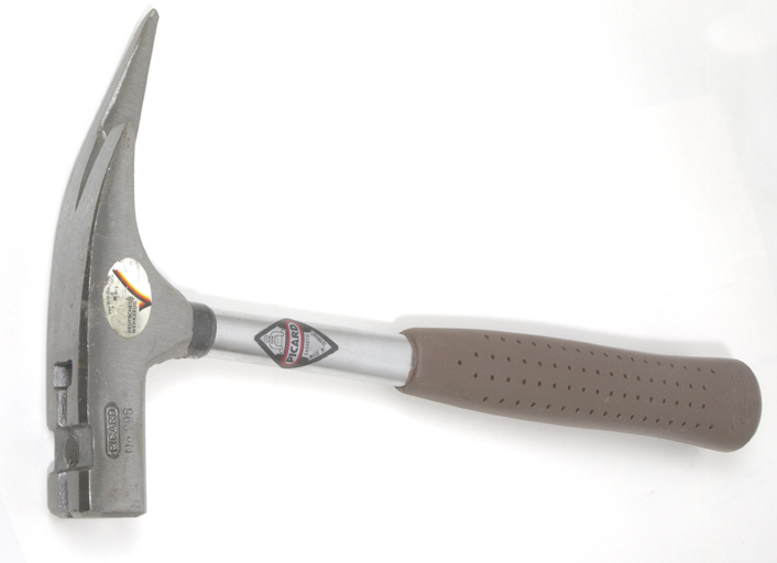 Carpenter's roofing hammer with magnetic nailholder, polished with tubular steel shaft, elastomer grip